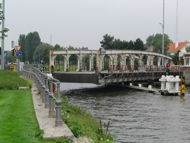 Scheepsdale bridge Bruges